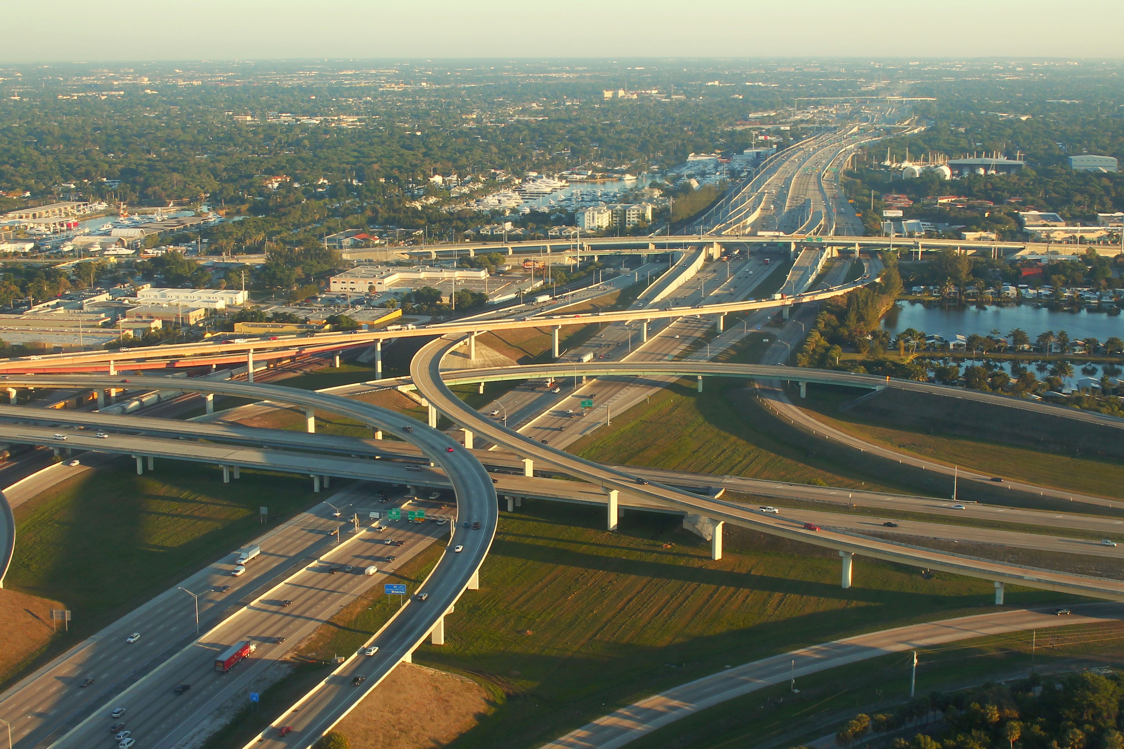 An aerial view of the Rainbow Interchange in Fort Lauderdale, Florida, facing north.